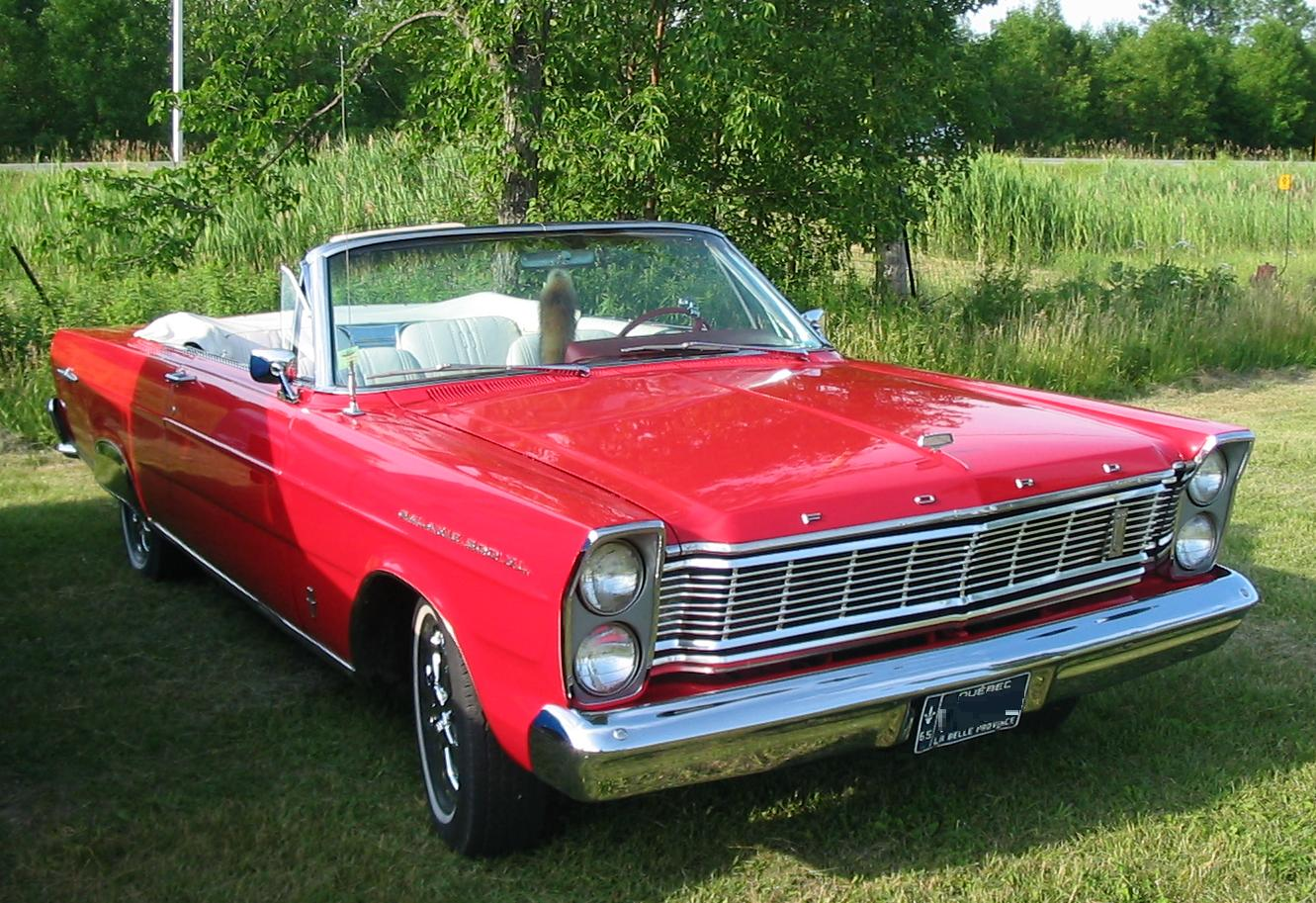 1965 Ford Galaxie 500XL photographed in Mont St. Hilaire, Quebec, Canada at the Auto classique VAQ Mont St-Hilaire.